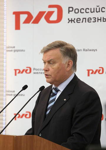 V.I. Yakunin, President of Russian Railways in 2010